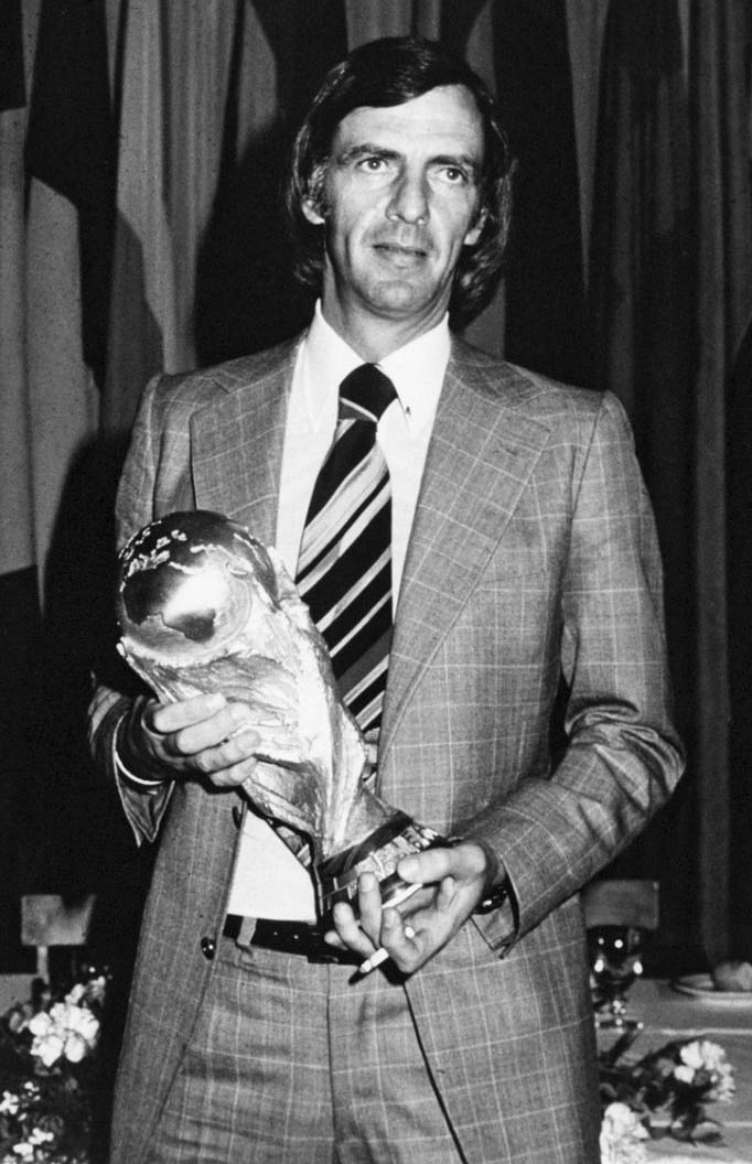 César Menotti holding the World Cup won with Argentina.